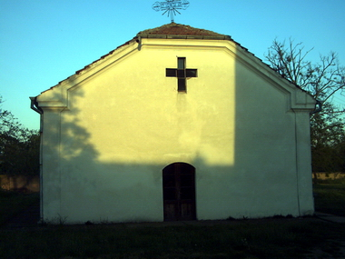 Serbian Orthodox Church in Donje Stopanje, Serbia/L'église orthodoxe serbe Saint-Nicolas à Donje Stopanje, Serbie